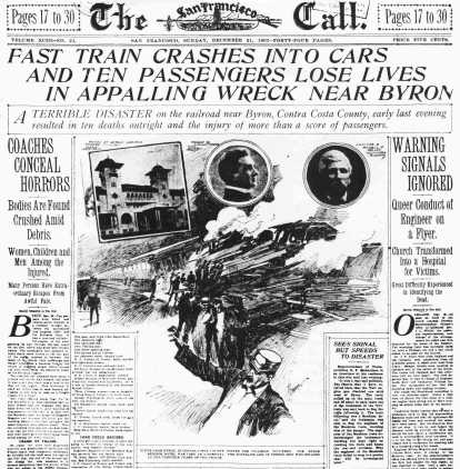 The Byron, Ca. Trainwreck in the San Francisco Call